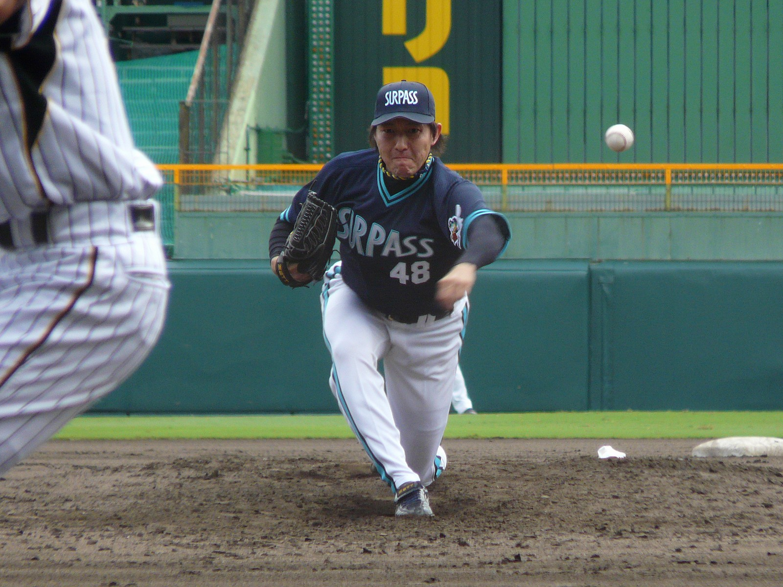 Makoto Yoshino, pitcher of the Surpass, at Hanshin Koshien Stadium.